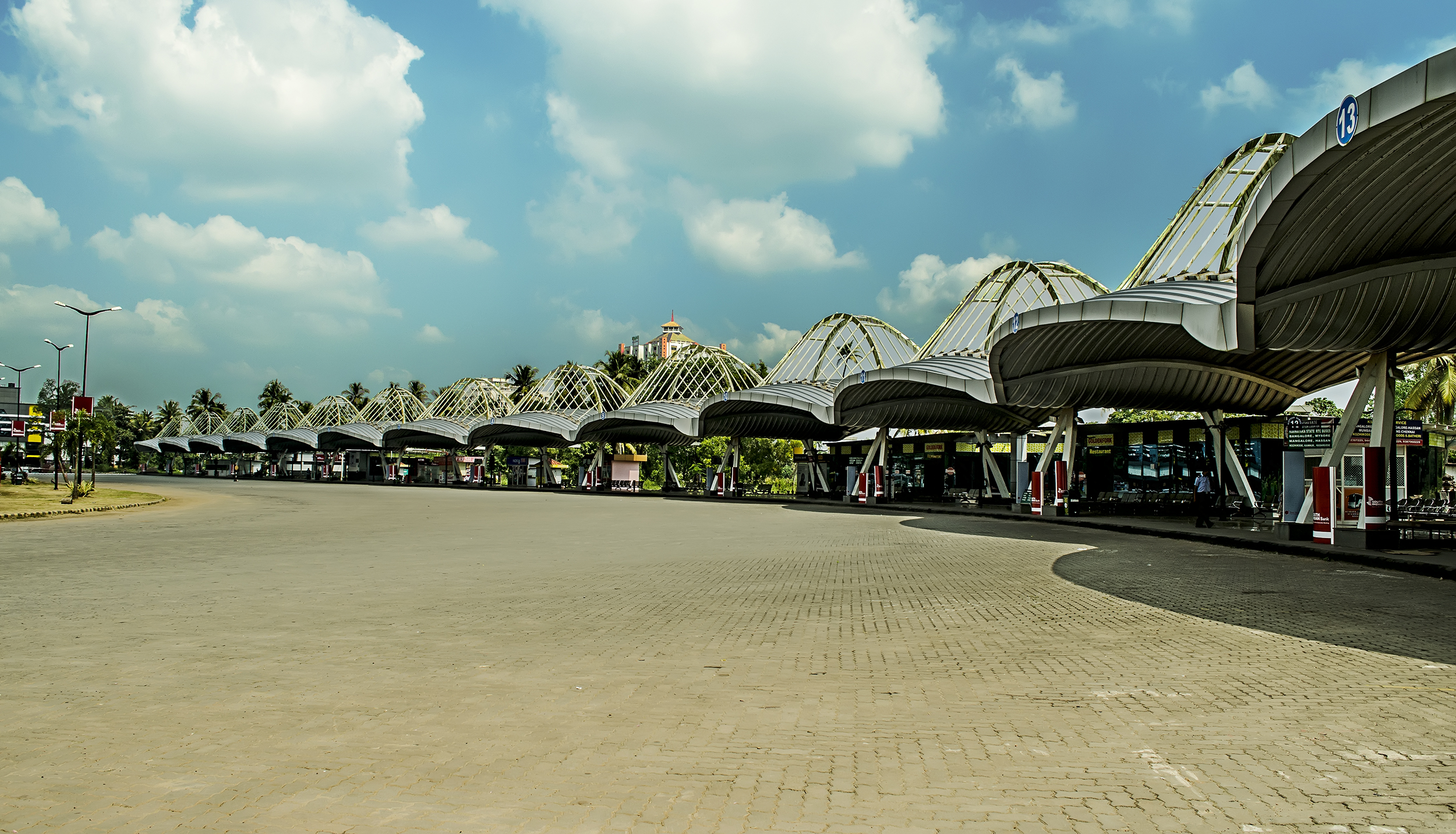 An empty View of Vyttila Mobility Hub